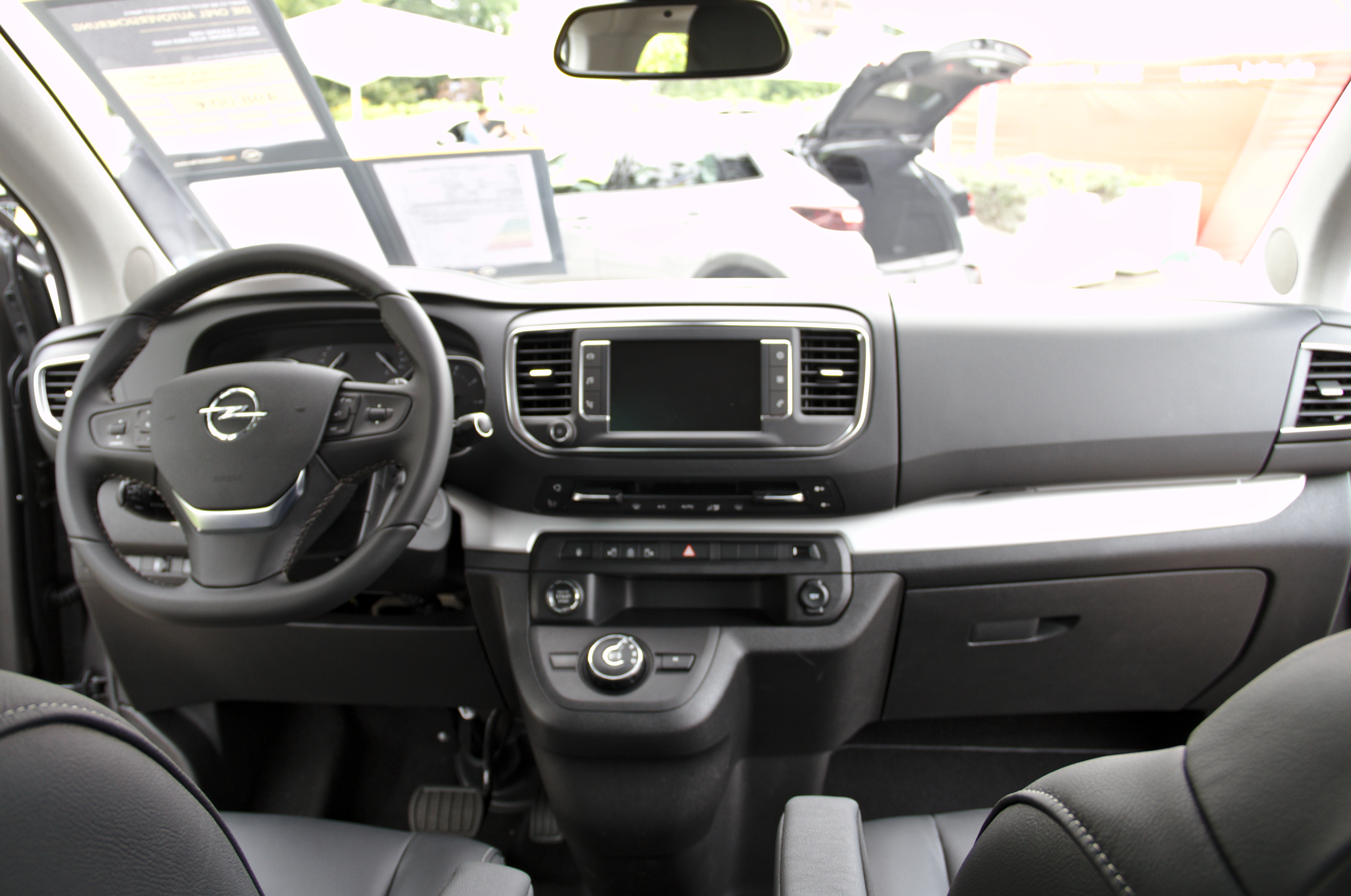 Opel Zafira Life M at Leonberger Autoschau 2019